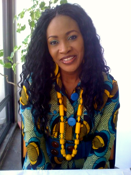 Muma Gee in 2008